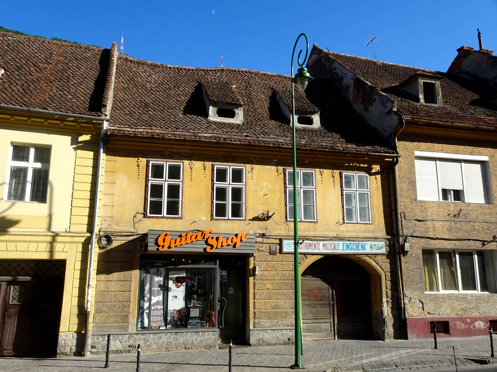 House in Bălcescu street, Brașov